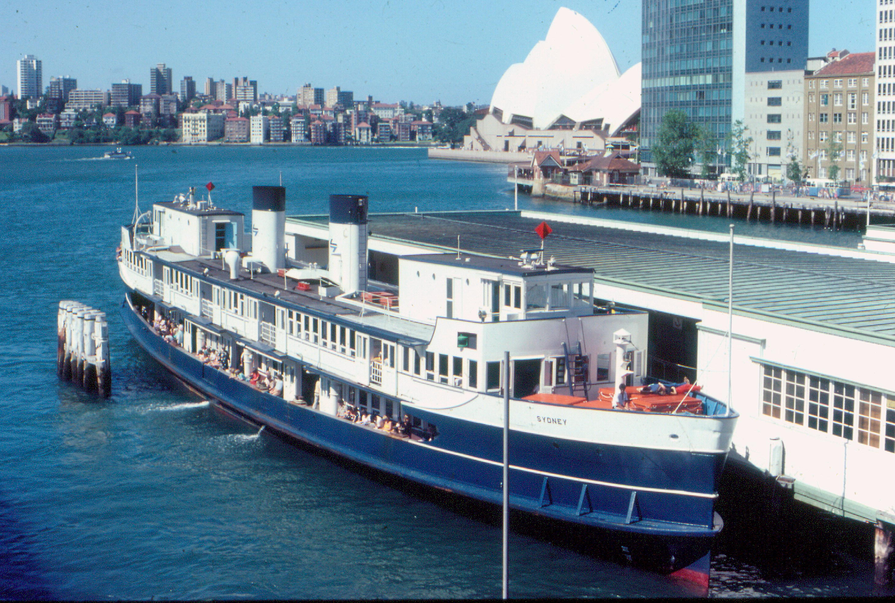 Sydney Ferry NORTH HEAD at Circular Quay 9 January 1981 Graeme Andrews, NORTH HEAD in Circular Quay. (09/01/1981), [A-00075557]. City of Sydney Archives, accessed 10 Apr 2020